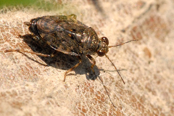 Saldula orthochila from Commanster, Belgian High Ardennes .